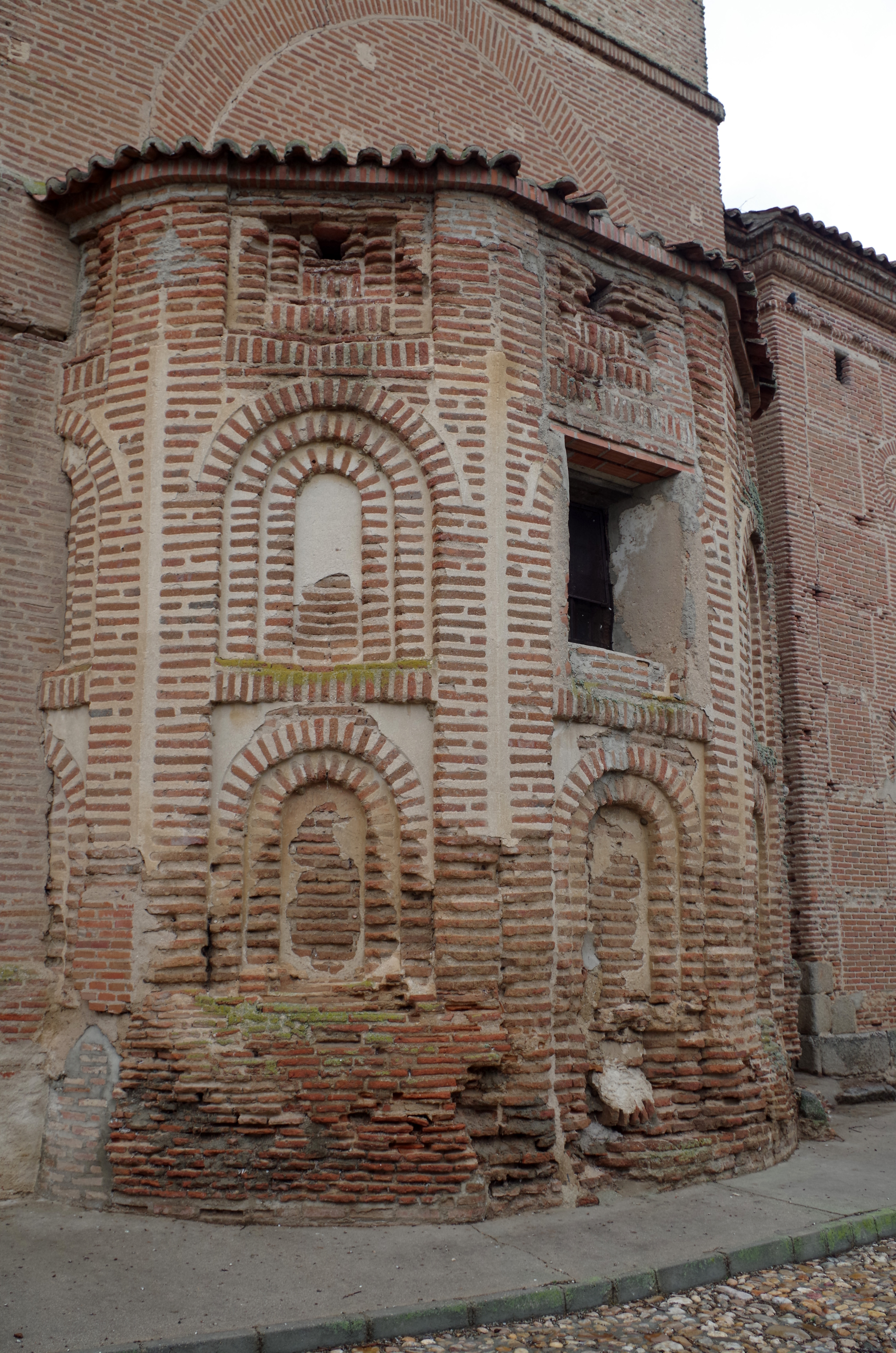 Detail of mudejar church of the Assumption in Cantaracillo. Salamanca, Spain.